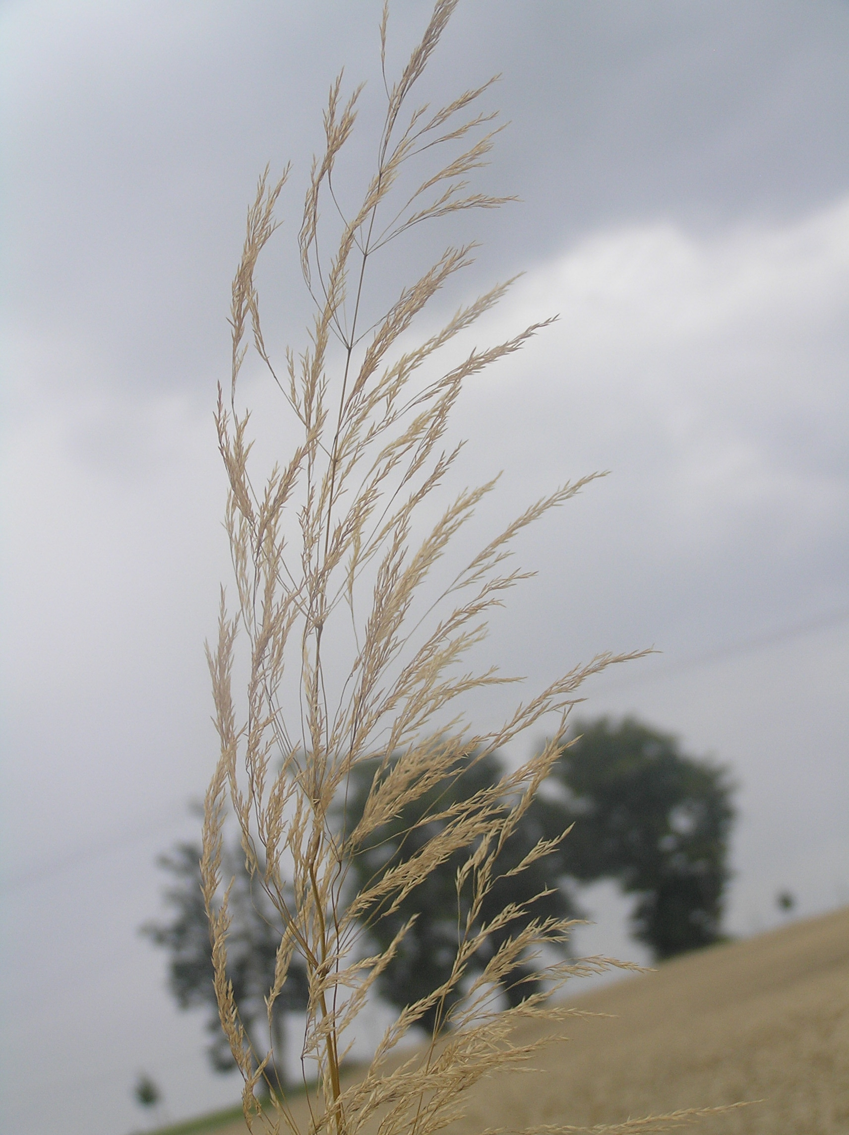 Apera spica-venti, Choceň, Czech Republic